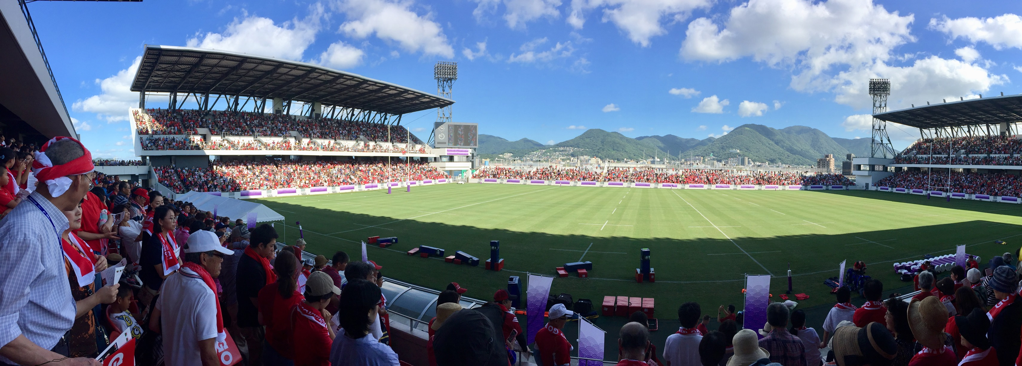 Just before the Welsh squad took the field for their public practice session pre Rugby World Cup 2019